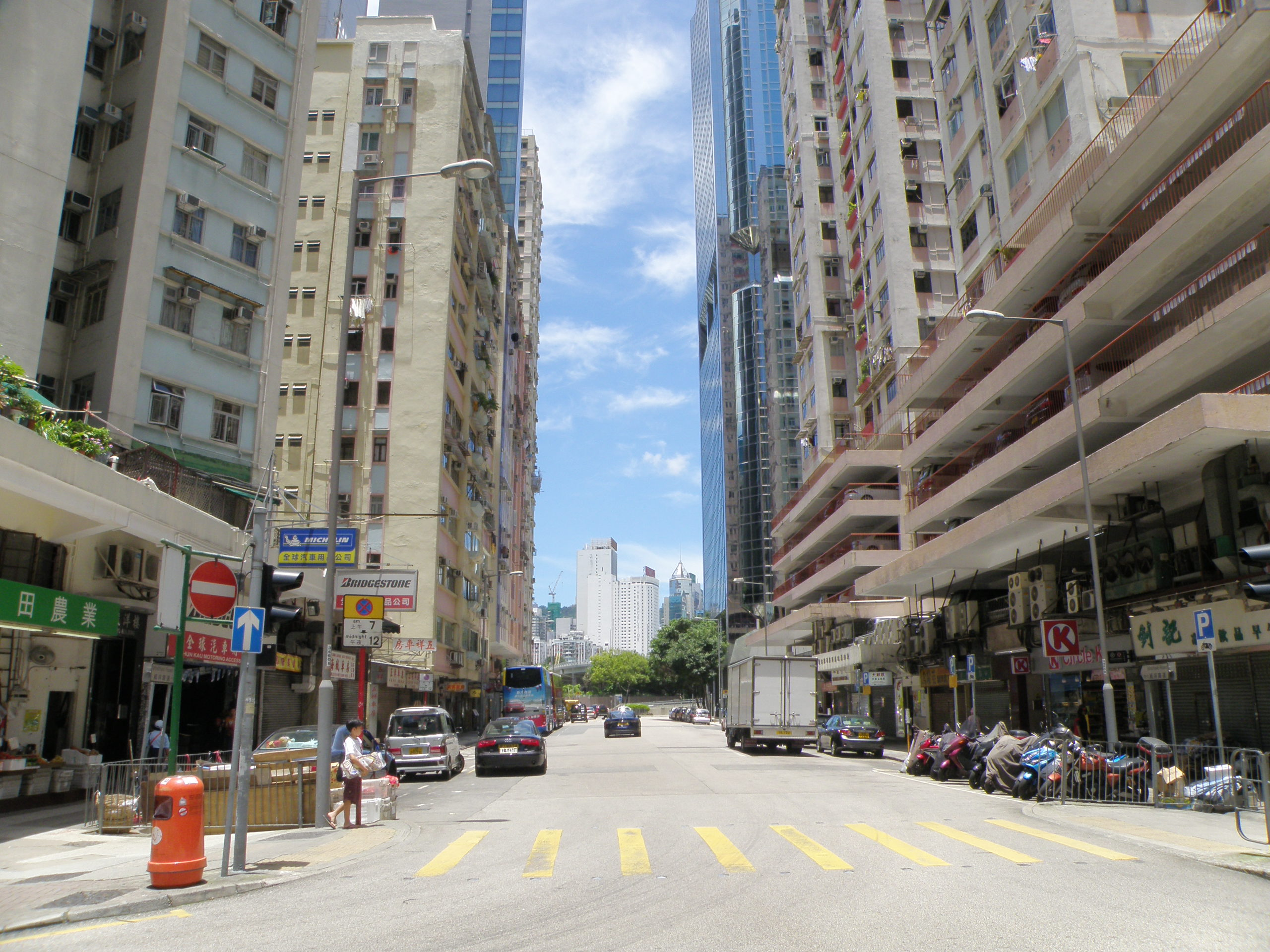 Whitfield Road in Tin Hau, Hong Kong.